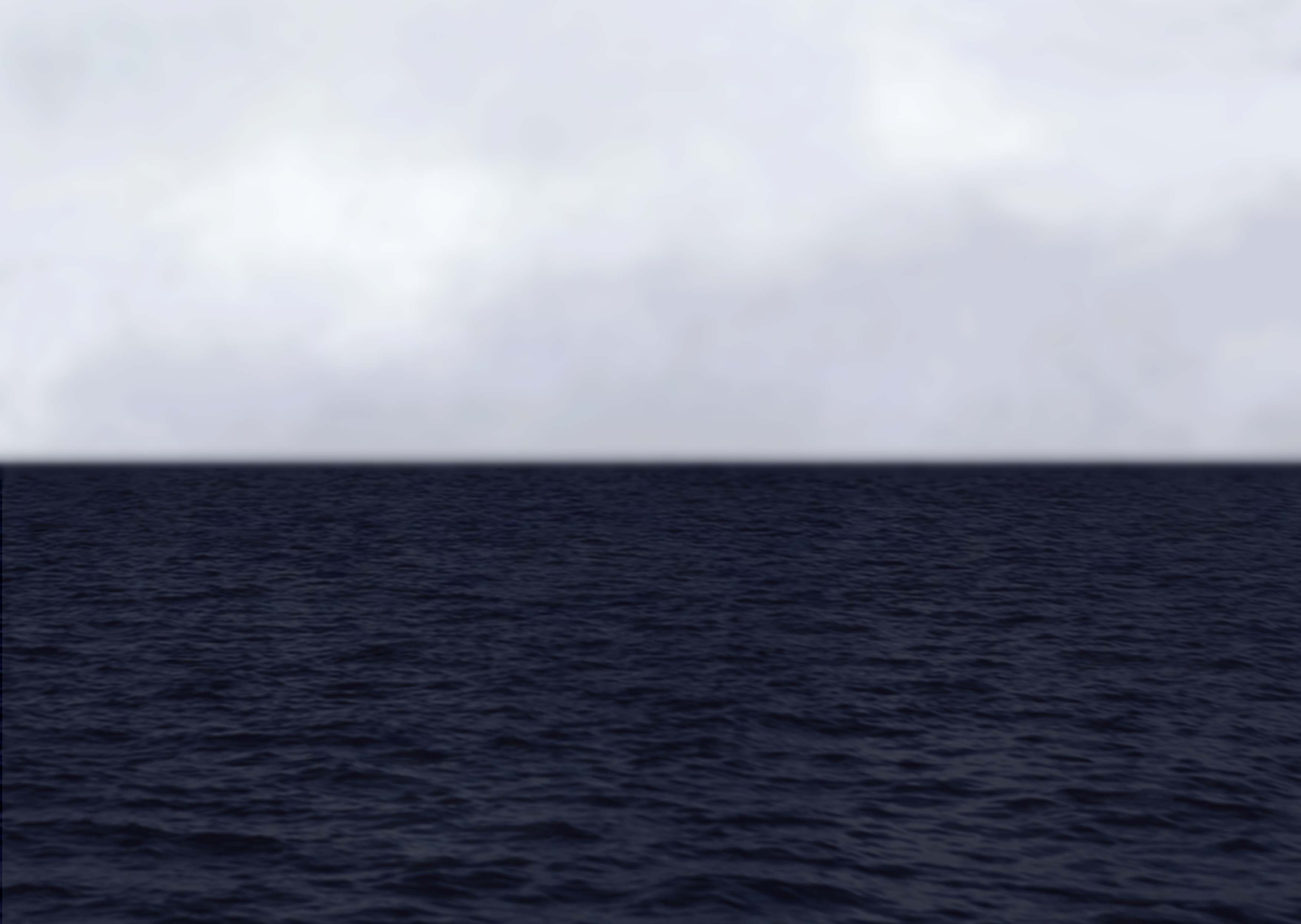 Ralf Arzt Seascape oil on canvas 106x150 cm